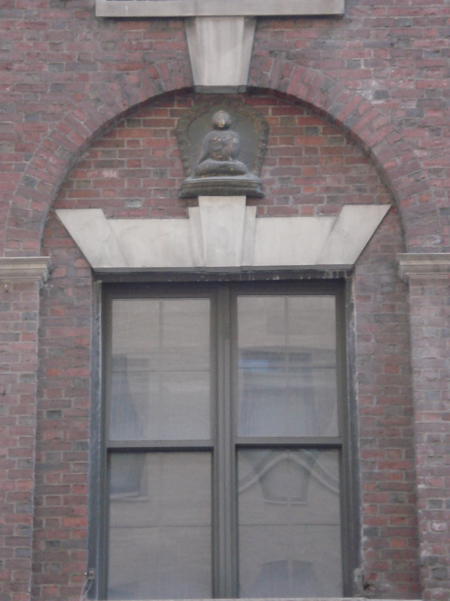 Image 21: A small relief ornament of Buddha was placed above the second-story windows when the building was occupied as a Buddhist temple. Image c. 2012. (Photograph by Kate Reggev for Save Washington Street campaign)